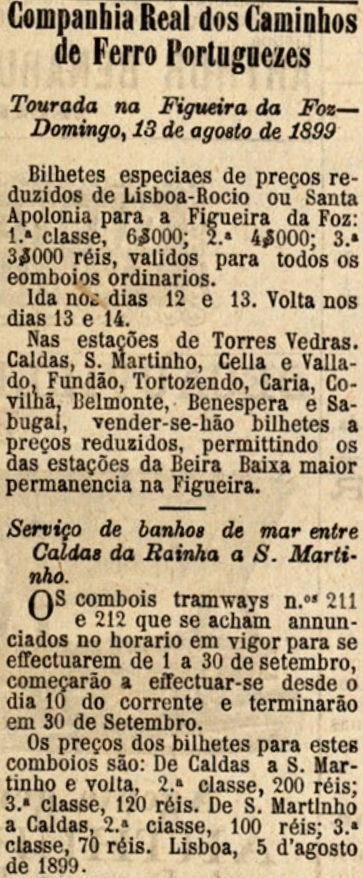 Double public warning of Companhia Real dos Caminhos de Ferro Portugueses (Royal Company of Portuguese Railways), about discounts to a bullfight in Figueira da Foz, and to the beaches at the western coast between Caldas da Rainha and São Martinho do Porto. This image was published on the Diario Illustrado newspaper No. 9487, of 10th August 1899, and scanned by the Biblioteca Nacional de Portugal.